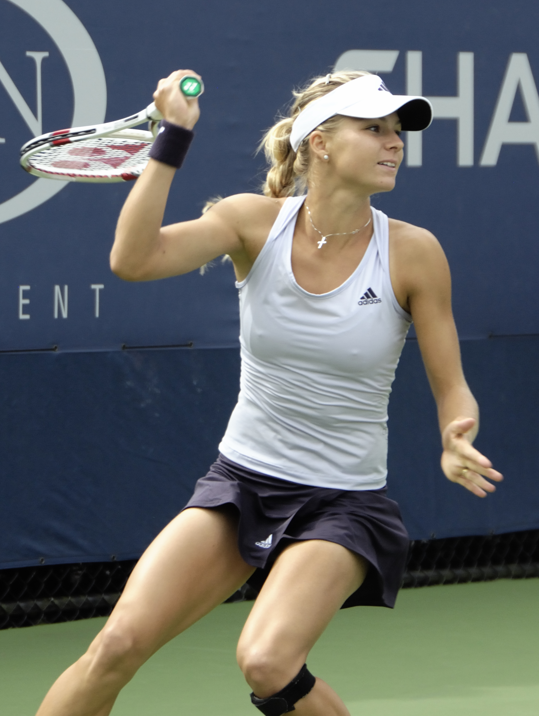 Maria Kirilenko at the 2009 US Open